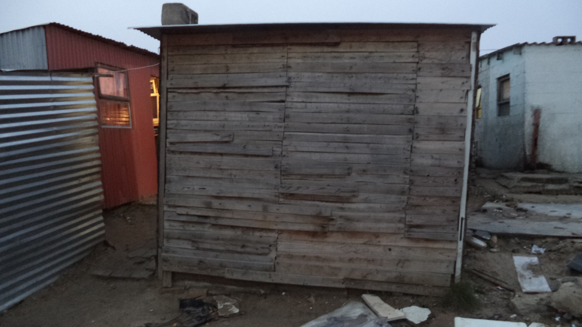 typical house in joe slovo park